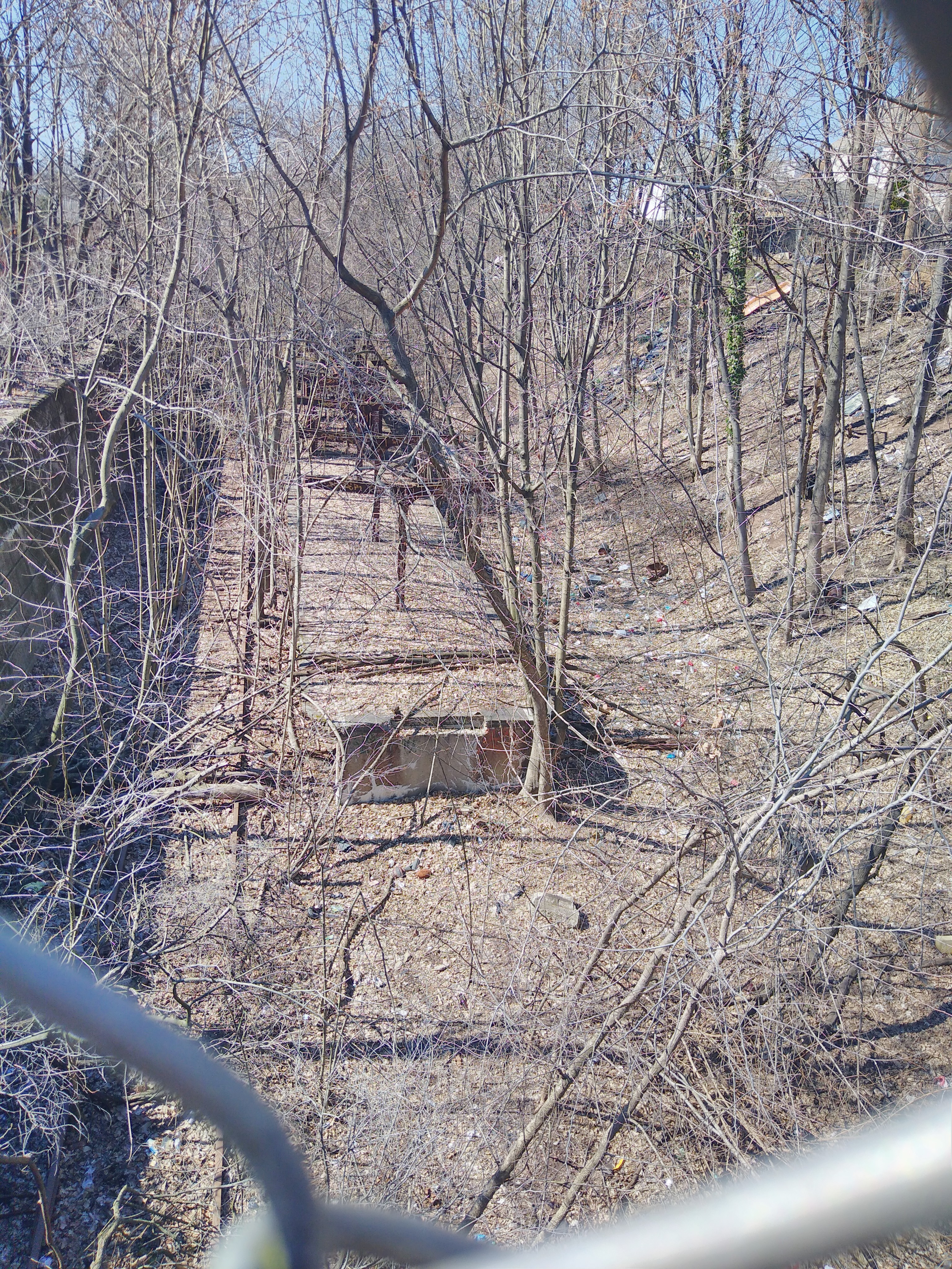 Location uncertain